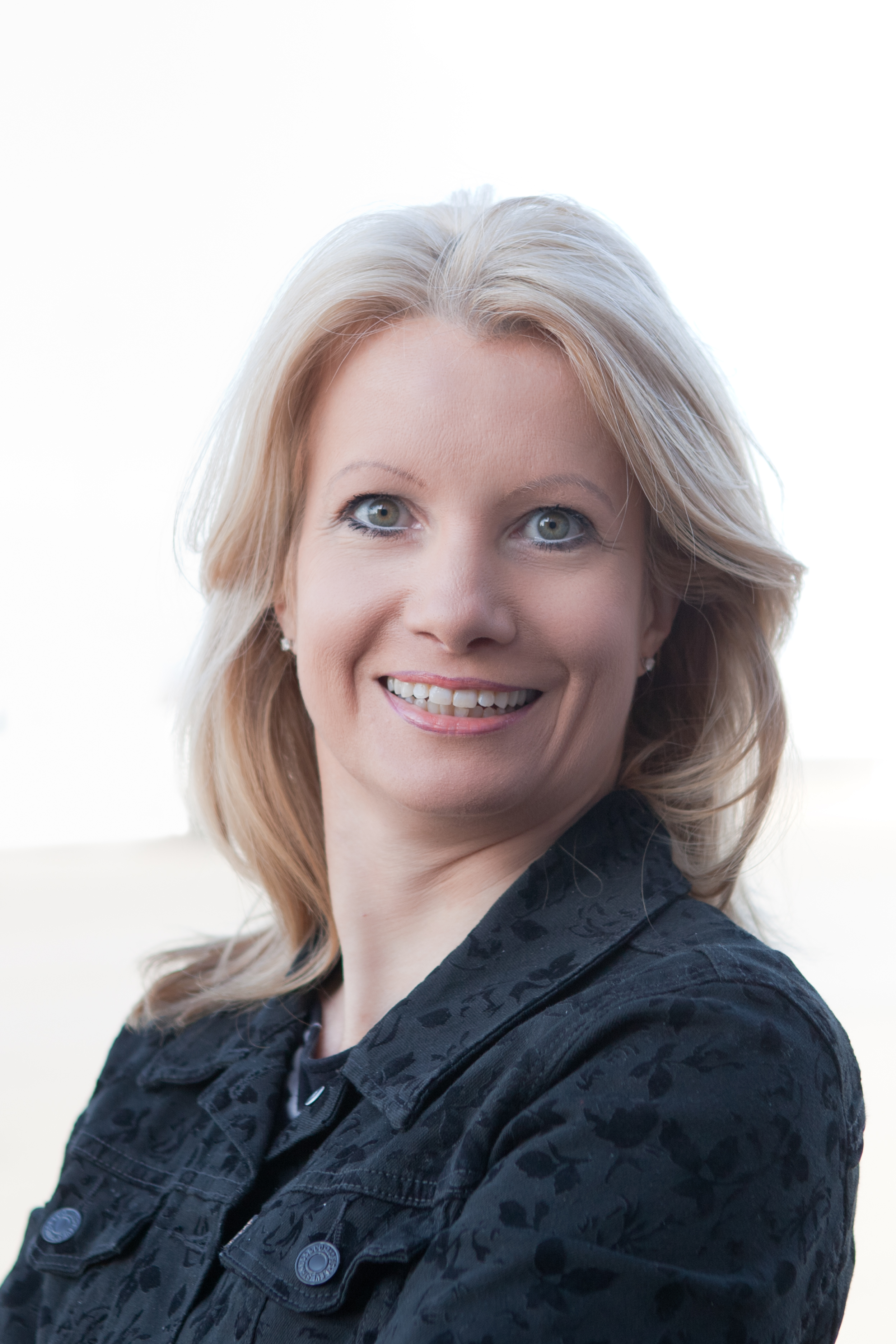 Bettina Scheer 2016